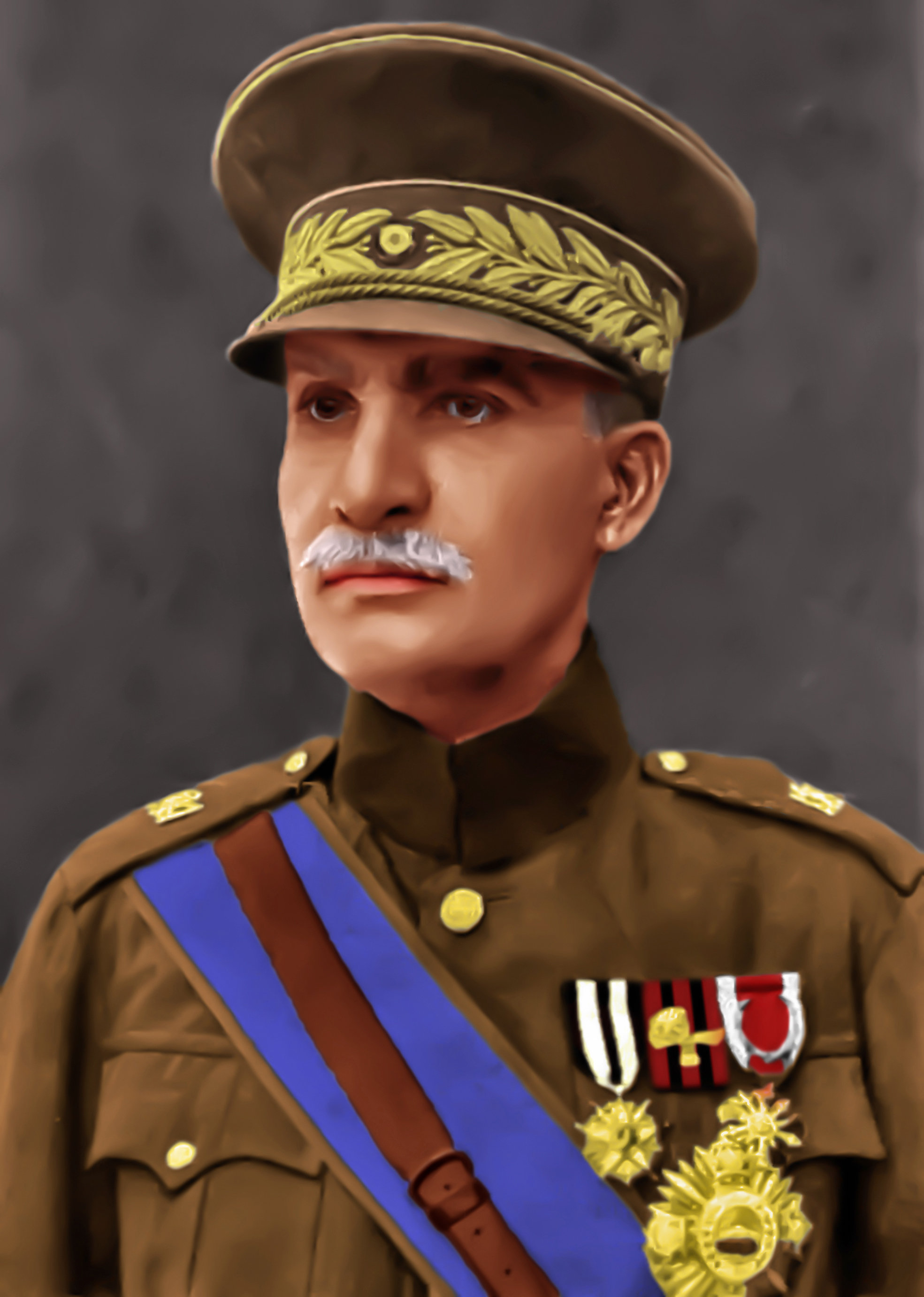 Hand-colored photograph of reza shah.